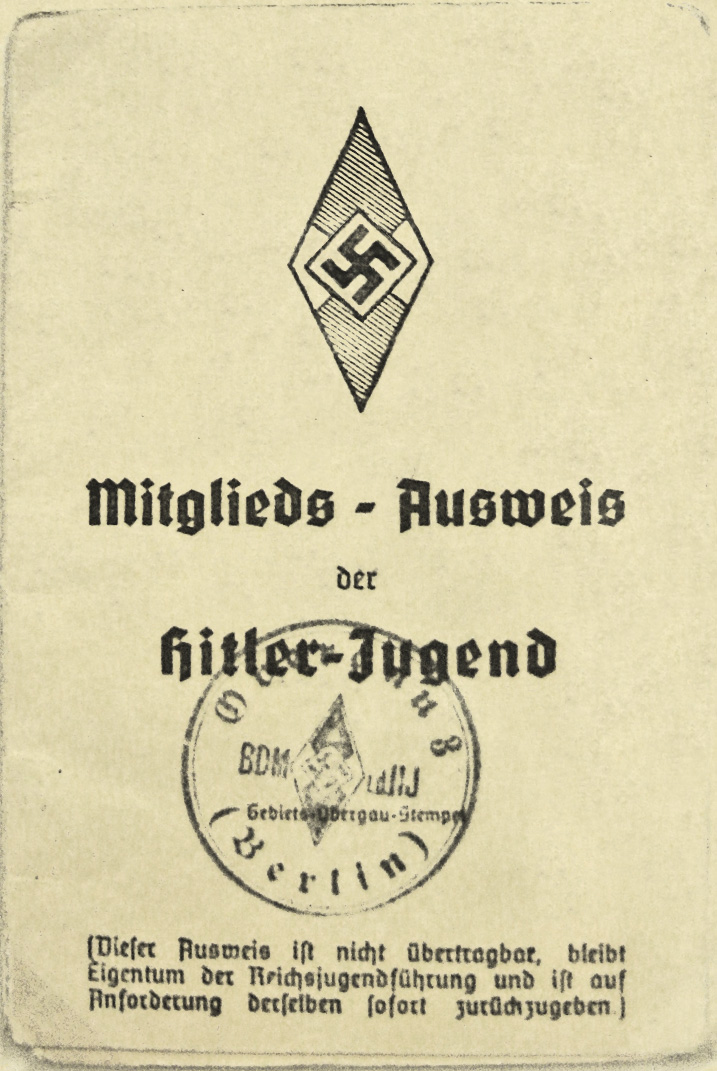 Membership card of a Hitler Youth member. An exhibit of the German Historical Museum in Berlin